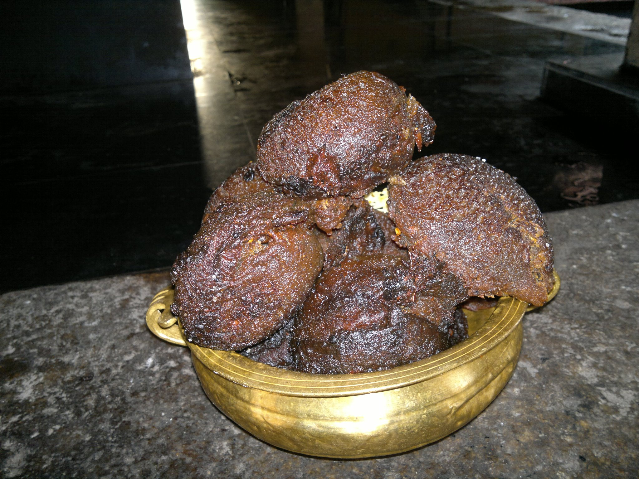 Vazhappally Ganapathiappom